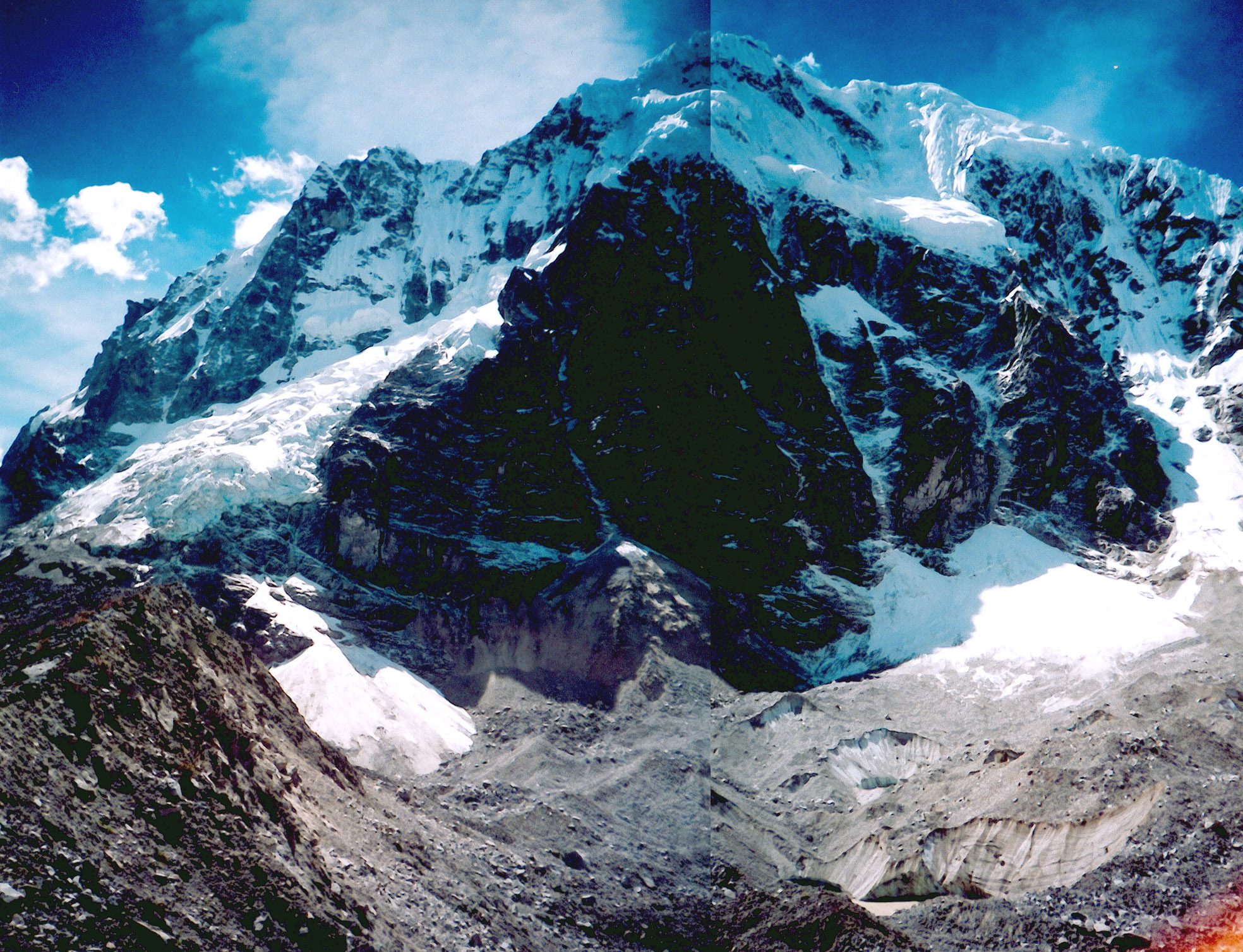 SW face of Nevado Salcantay